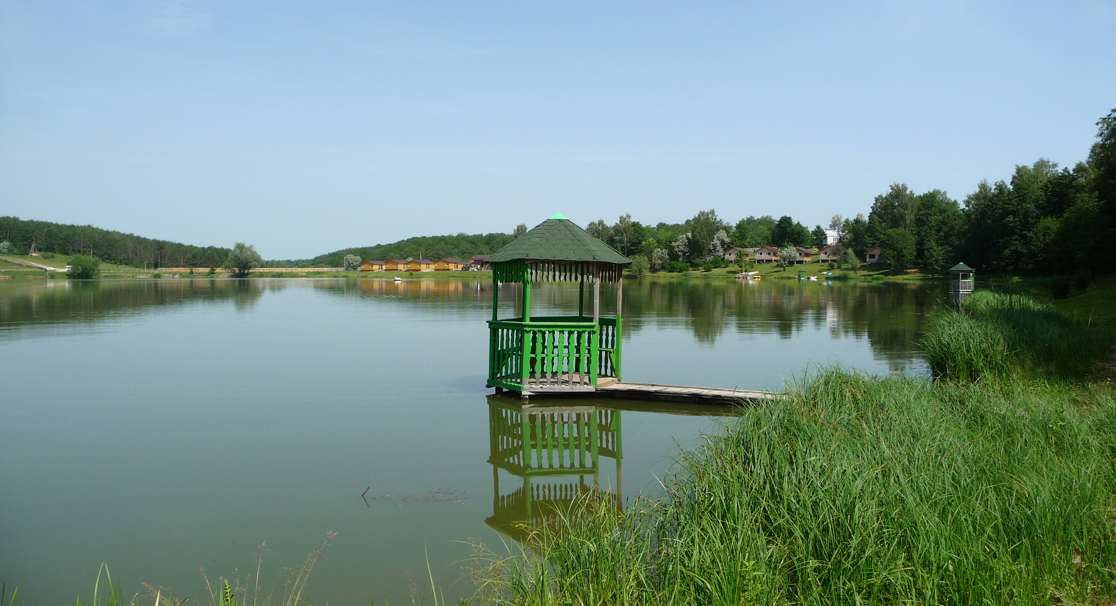 Tourist and fishing base "Beryozka" ("Betula") near Tiut'ky. Vinnitsa region.